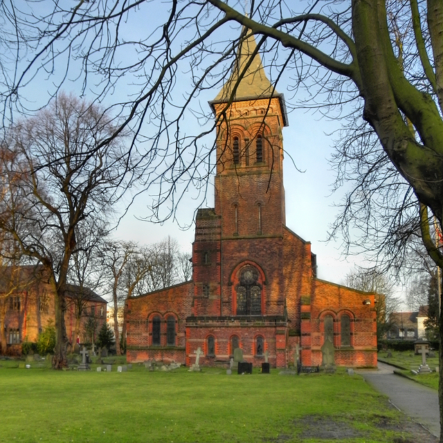 Photograph of St George's Church, Altrincham, Greater Manchester, England